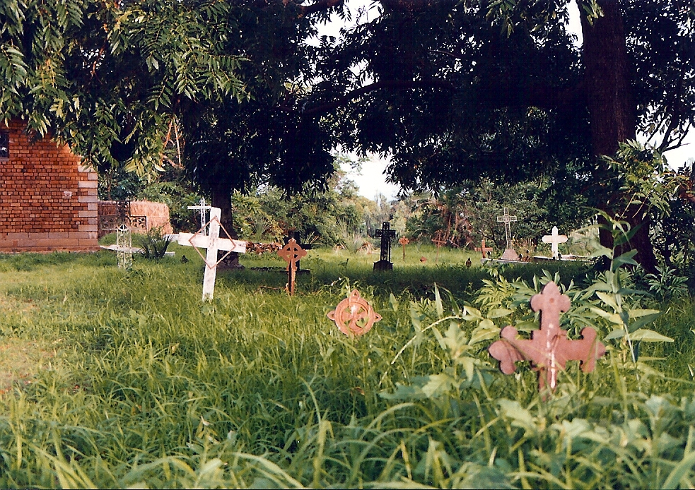 Cemetery by the Christian church (visible to left) in Nkhotakota, eastern Malawi. The graves are of converts and the families of foreign missionaries, and most of the memorials are made of wrought or cast iron. Taken January 1997 on film.